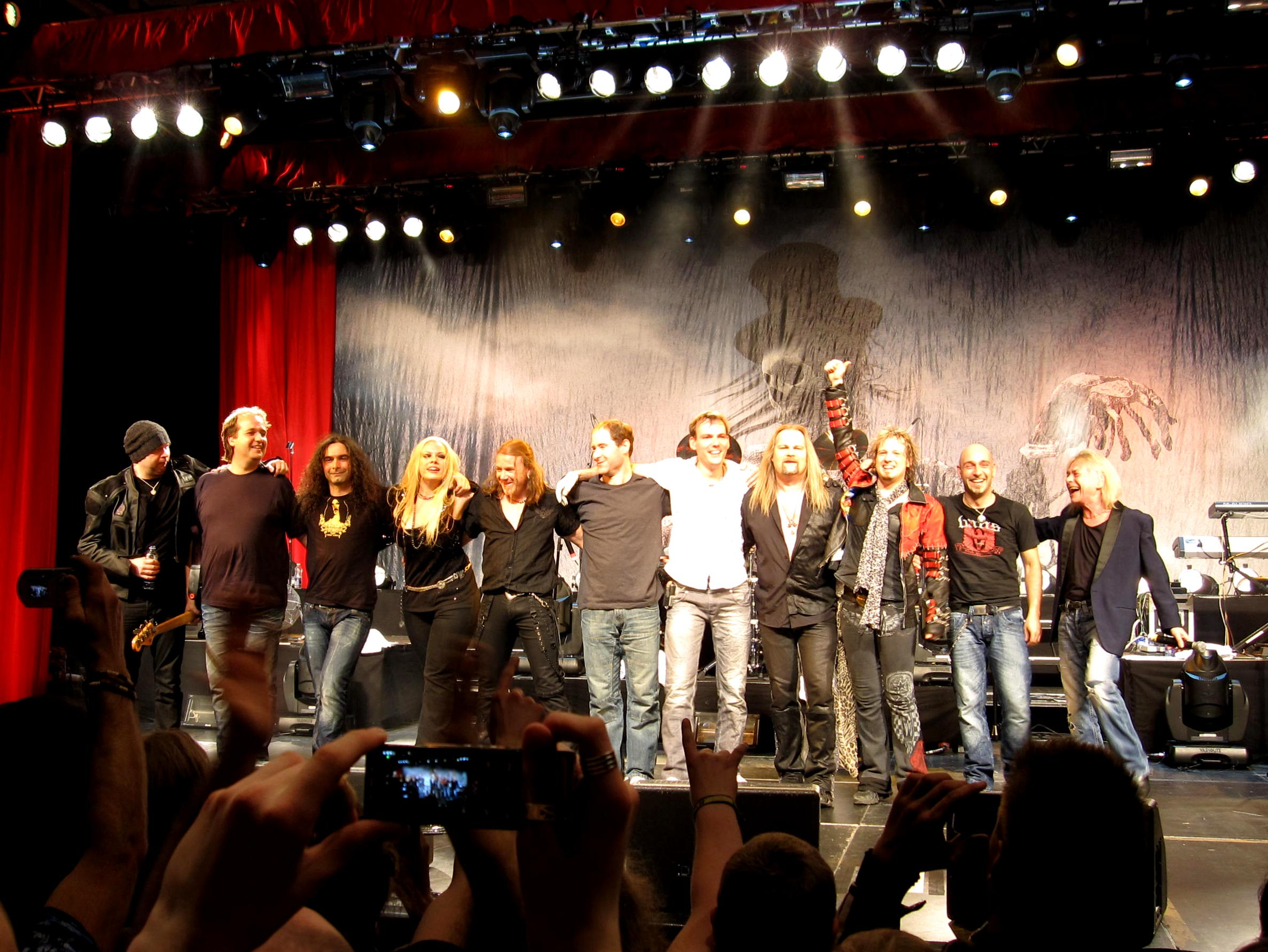 Avantasia live in Stockholm on 2010-12-05. Left to right: Michael Kiske, Robert Hunecke-Rizzo, Sascha Paeth, Amanda Somerville, Kai Hansen, Miro, Felix Bohnke, Jorn Lande, Tobias Sammet, Oliver Hartmann, Bob Catley